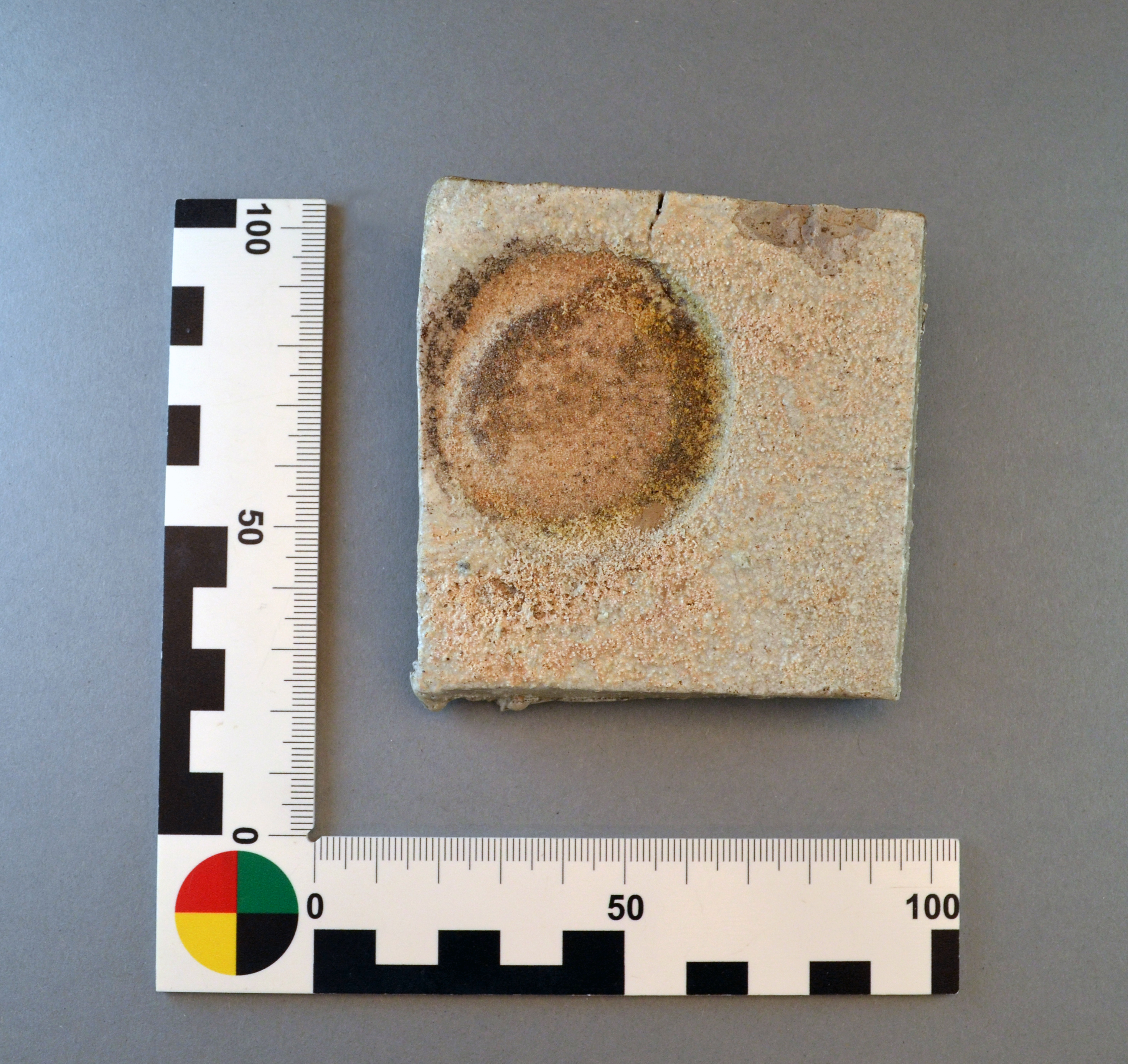 Frechen Stoneware Kiln Furniture